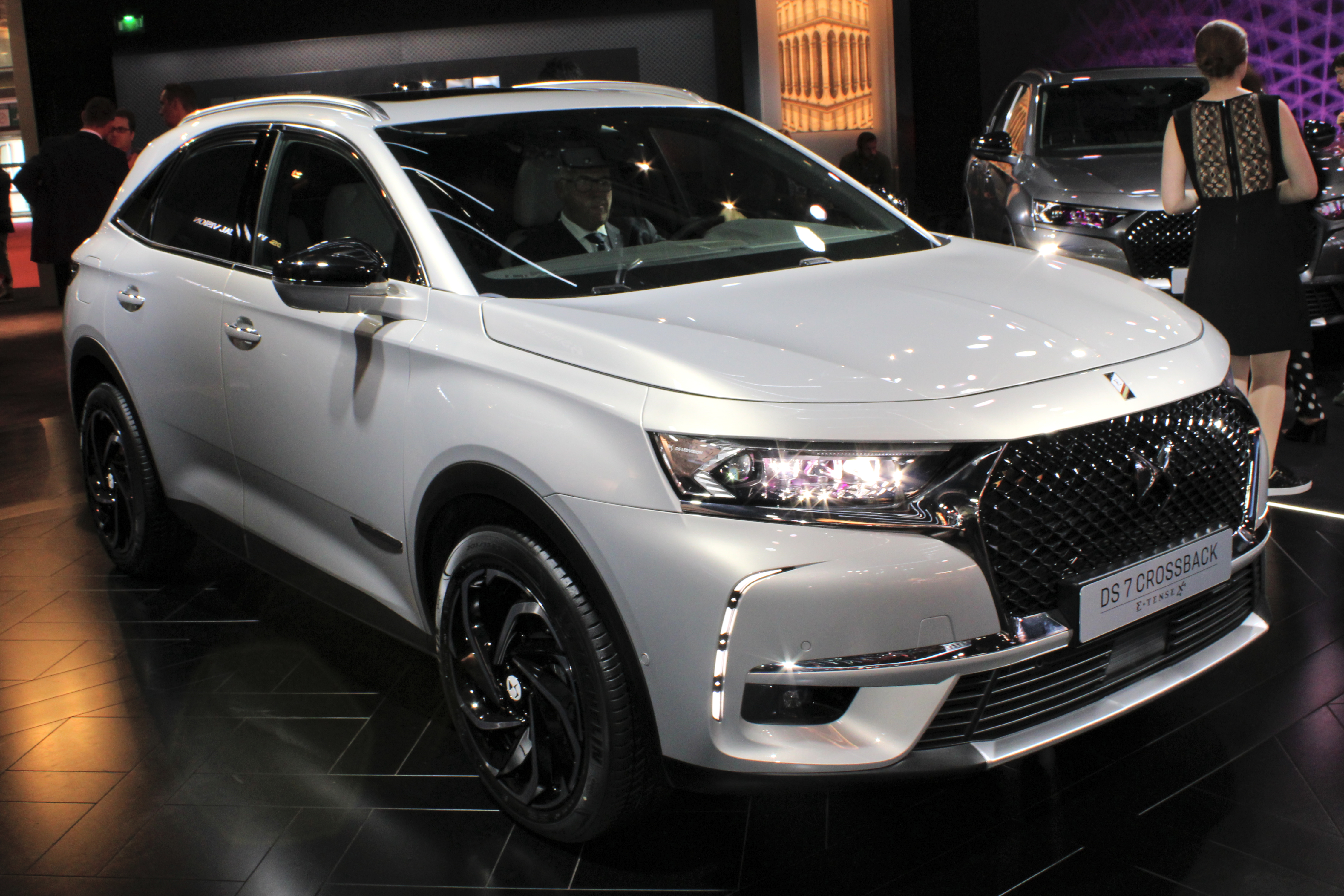 DS7 Crossback E-Tense at Paris Motor Show 2018